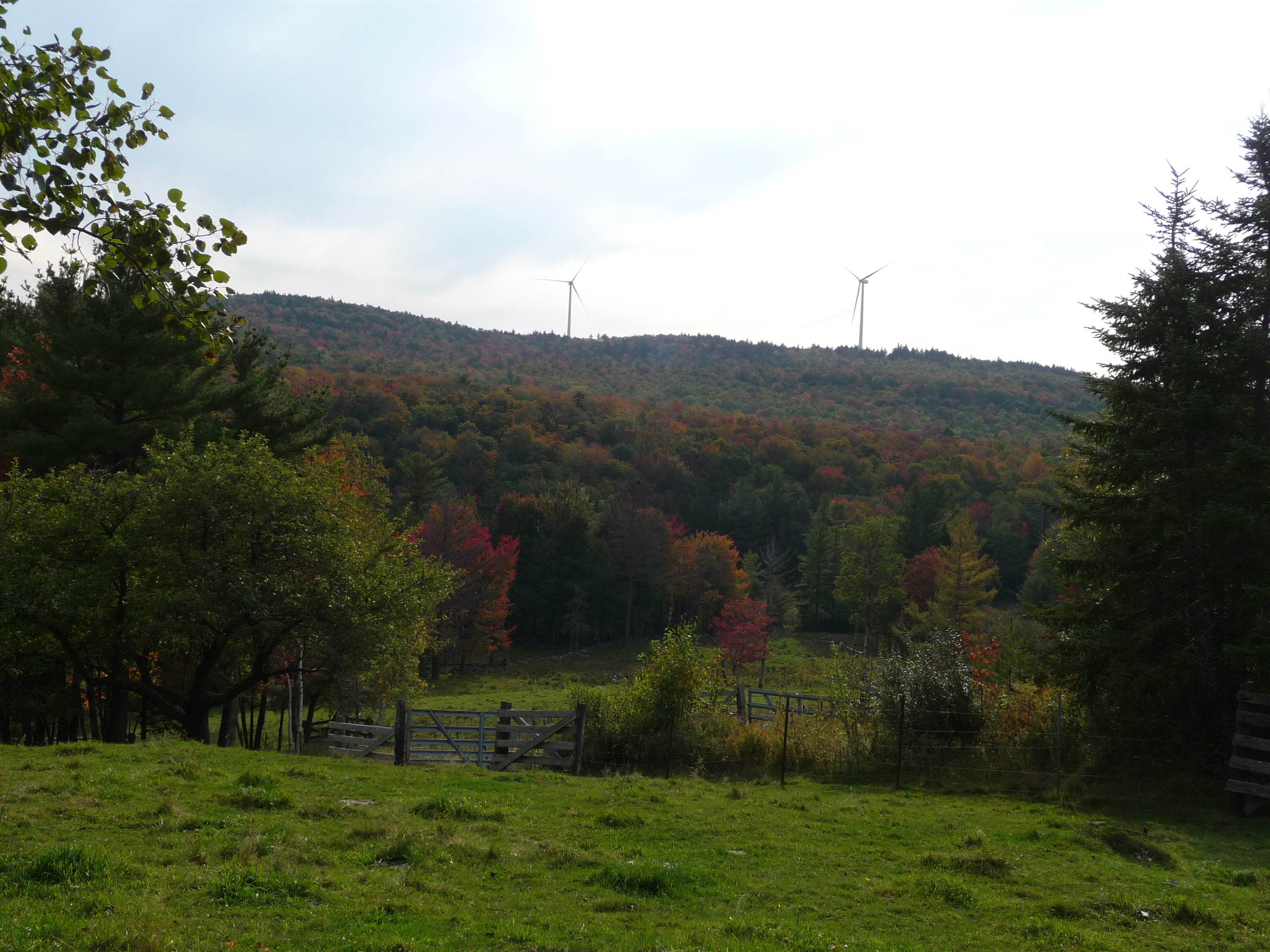 Lempster Wind Farm in Lempster, New Hampshire from Rt. 31.